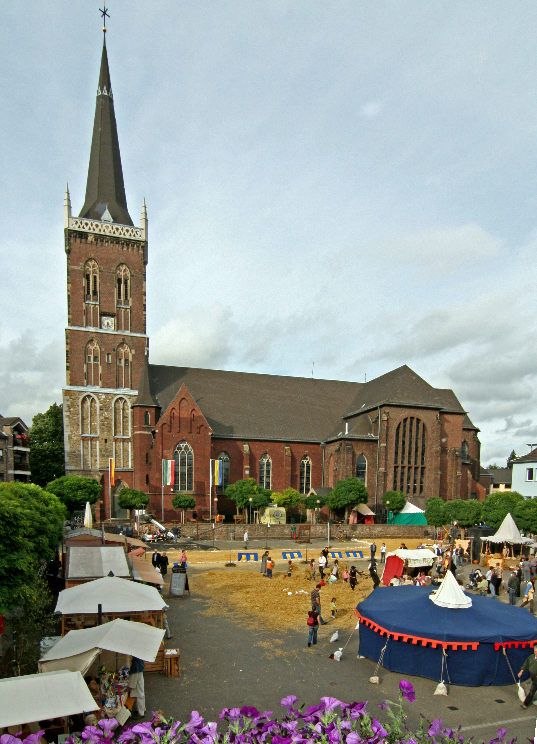 Eschweiler_St_Peter_and_Paul_church_with_medieval_festival.jpg